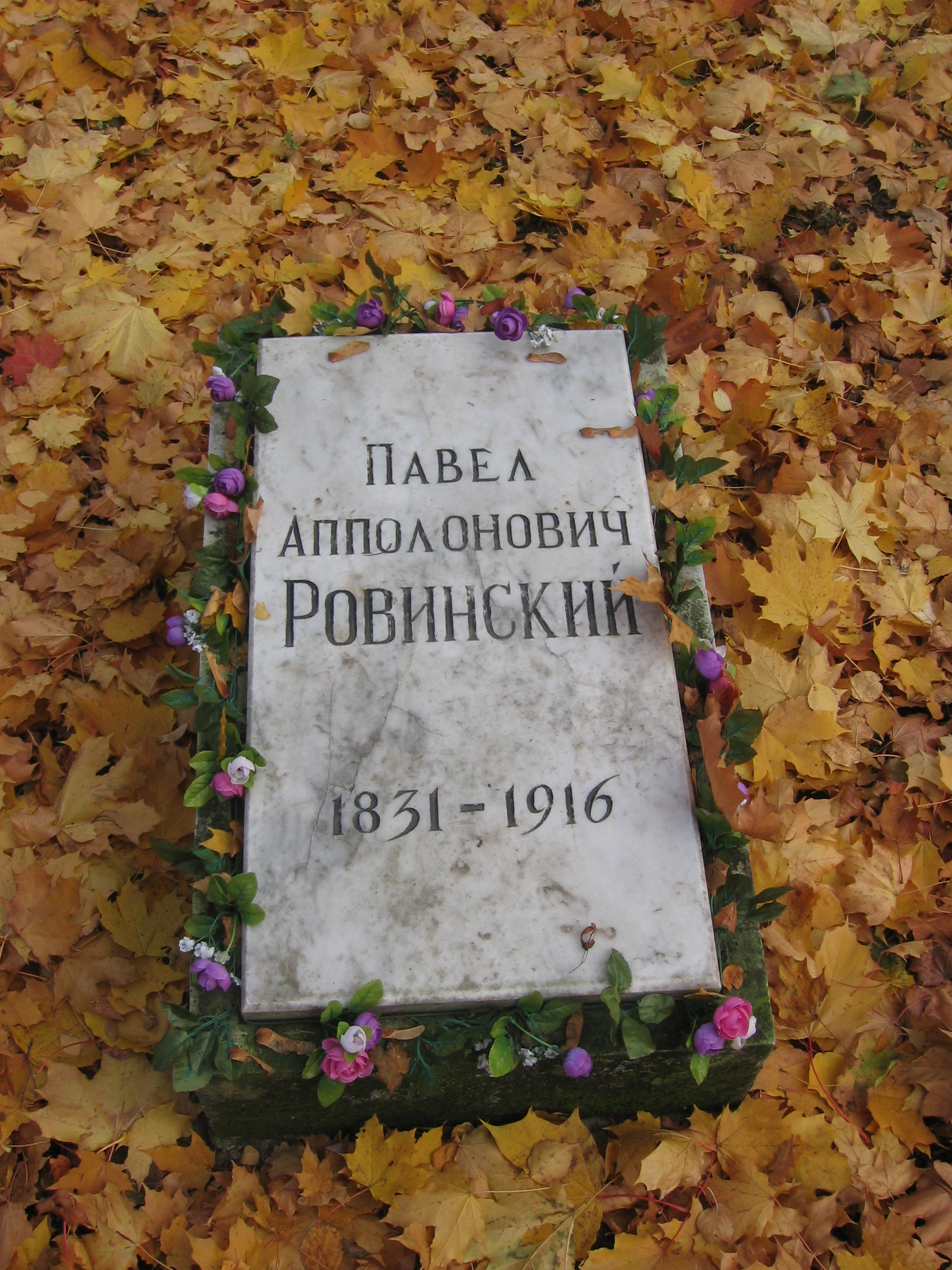 Grave of Pavel Rovinsky